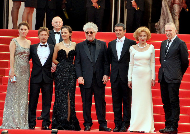 Cast and director of La Piel que habito at the Cannes film festival. From left to right at forefront: Blanca Suarez, Jan Cornet, Elena Anaya, Pedro Almodovar, Antonio Banderas, Marisa Paredes and Jean Paul Gaultier (designer of the film's costumes). Behind : Gilles Jacob, president of the Cannes film festival